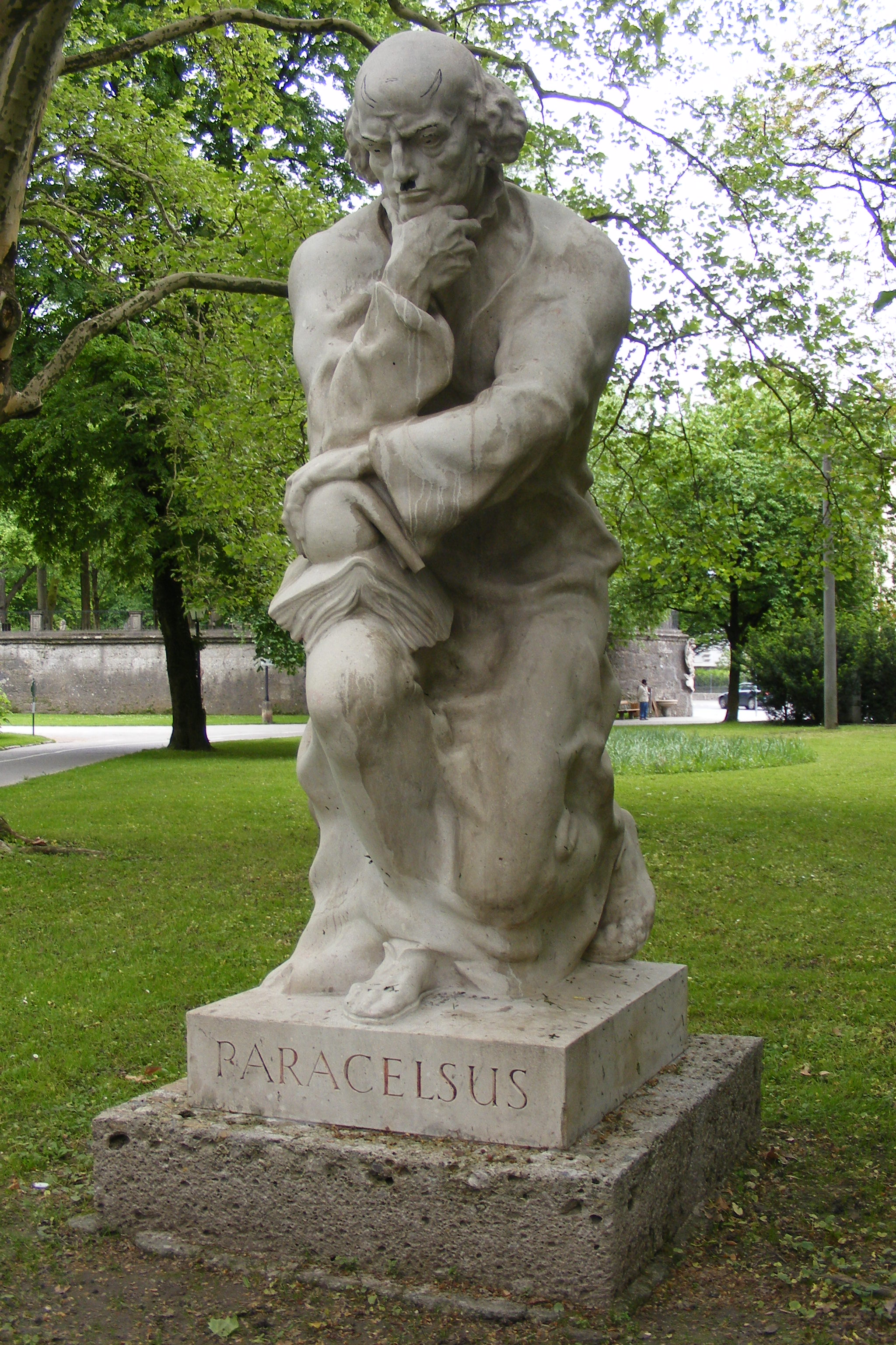 Paracelsus Monument in Salzburg